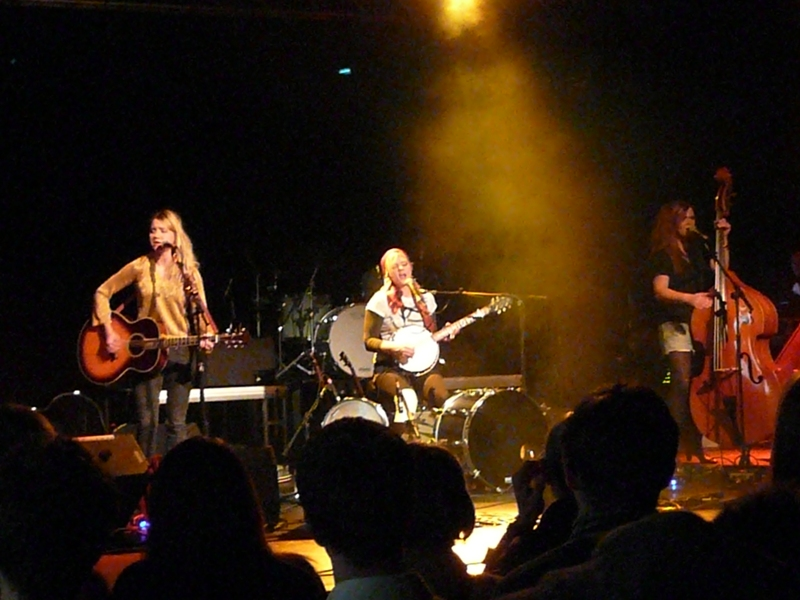 Sunniva, Greta and Stella Bondesson from the band Baskery live on stage.